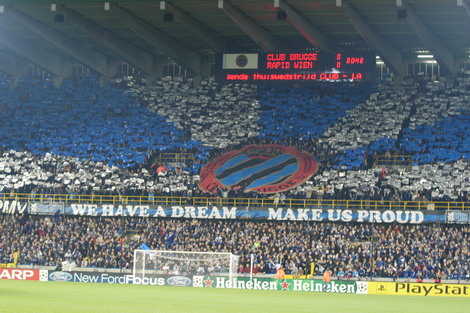 Tifo FC Bruges before Champions League match against Rapid Wien